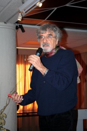 Humberto Maturana in Antofagasta